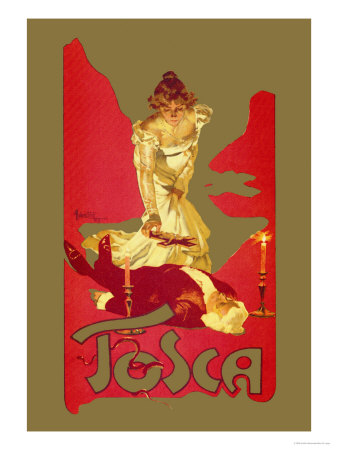 Poster for the opera Tosca by Giacomo Puccini